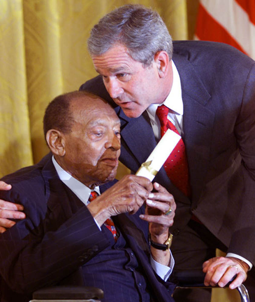 President George W. Bush honors music legend Lionel Hampton during a ceremony recognizing Black Music Month in the East Room of the White House on June 30, 2001.